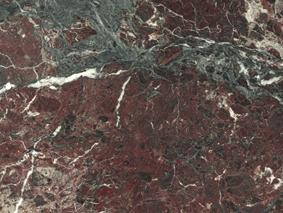 Detail of Levanto Red Marble (serpentine of Liguria, Italy)